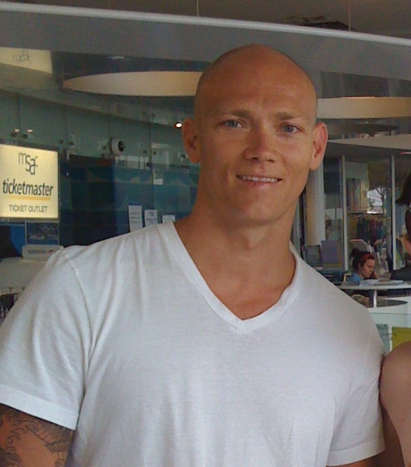 Klim at MSAC